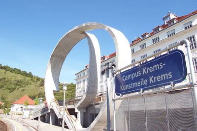 Railway station, Campus Krems, Lower Austria